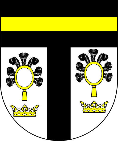 Coat of arms (shield only) of Lev cardinal Skrbenský z Hříště, archbishop of Prague (1899 - 1916), archbishop of Olomouc, Czech republic (1916 - 1920). Arms from the period in Prague.